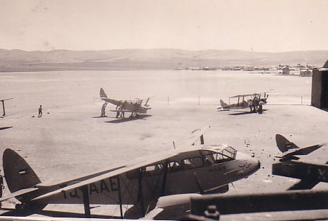 Aircraft awaiting maintenance